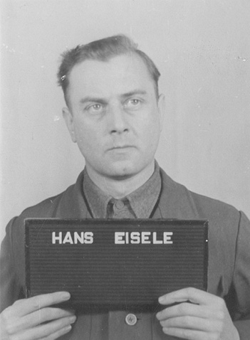 Dr. Hans Eisele, SS-Hauptsturmführer, physician in the concentration camp of Buchenwald. In the Buchenwald Camp Trial (part of the Dachau Trials) he was sentenced to death by hanging, later modified to a prison sentence. He was released in 1952.